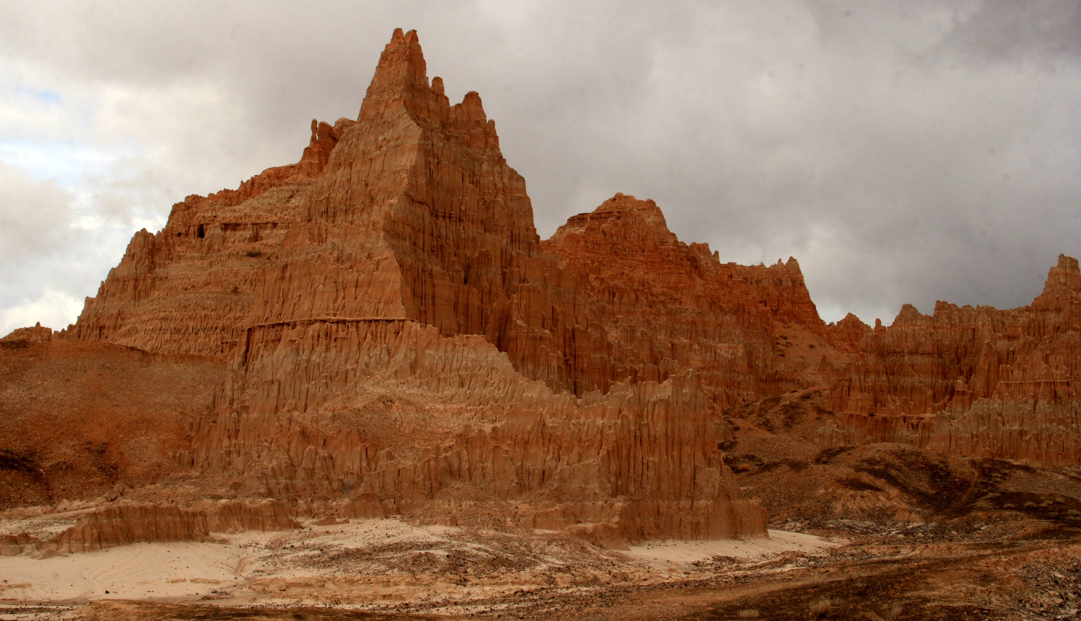 Cathedral Gorge is a Nevada state park about 80 miles south of Great Basin National Park in eastern Nevada and 80 miles west of Cedar City, Utah. It is a little out of the way but well worth a detour. Cathedral Gorge was formed by lake that dried up many years ago and wind and rain carved out the canyon. I took this photo on a snowy, cold day in October 2008.